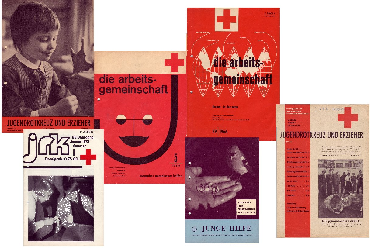 Selection of GRCY-Newspapers: Junge Hilfe (1957), jrk (1973), Jugendrotkreuz und Erzieher (1953 und 1960), die arbeitsgemeinschaft (1960 und 1966)